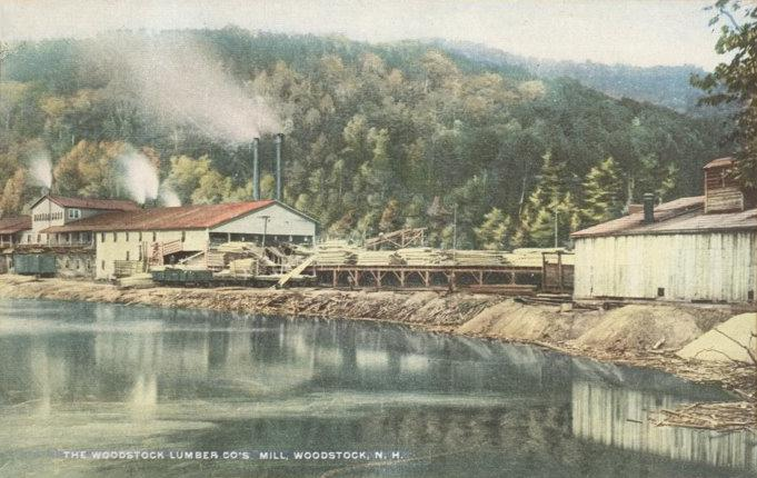 The Woodstock Lumber Company's mill, Woodstock, New Hampshire